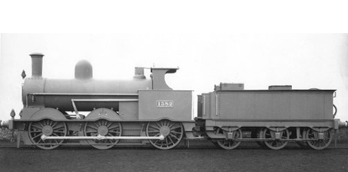 Photograph of LNWR engine No. 1382, 18in Goods or 'Cauliflower'